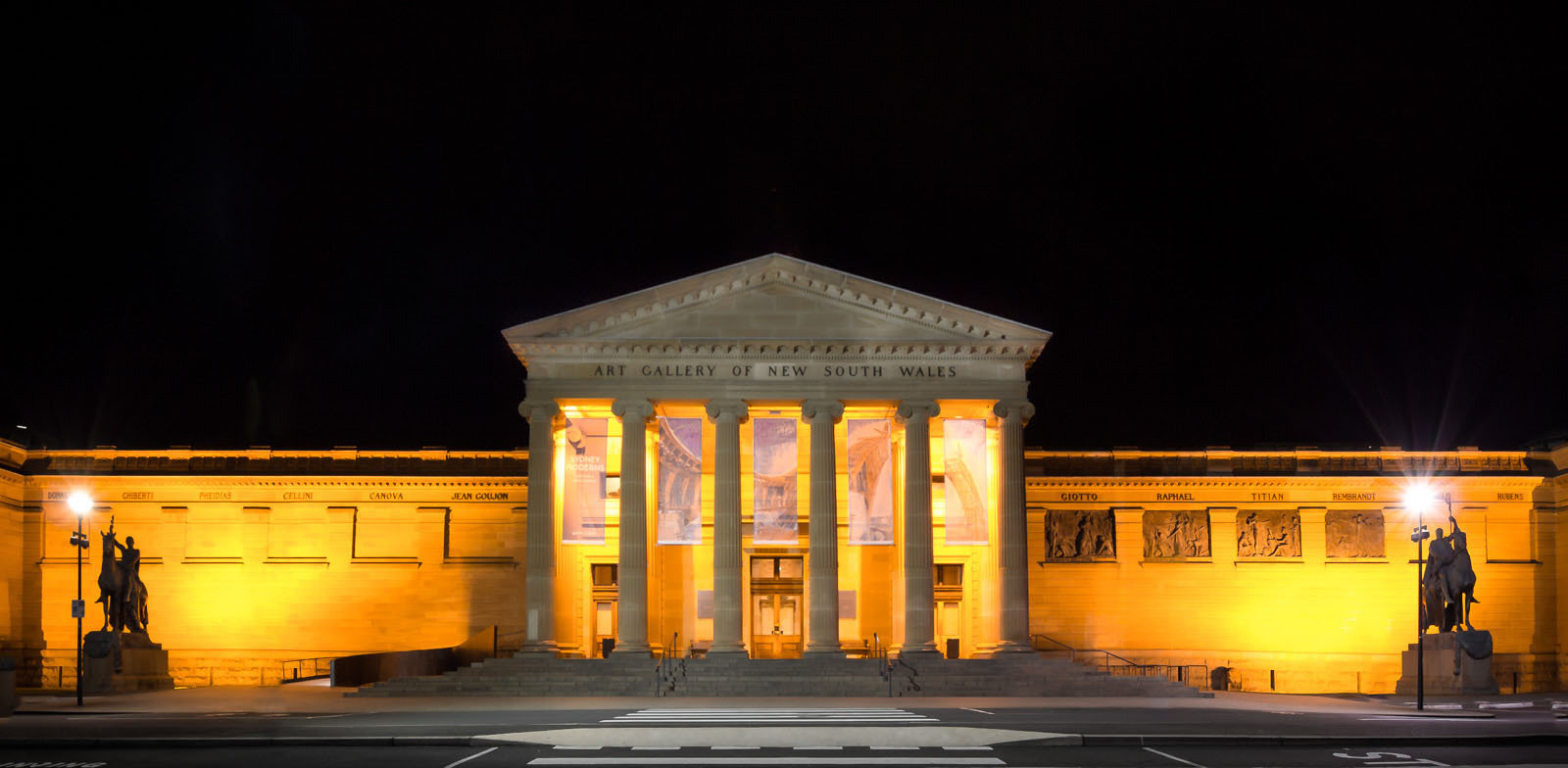 The Art Gallery of New South Wales on 18 July 2013 at night.